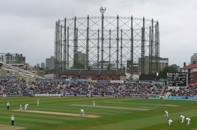 The Oval test match. England v South Africa, day 3, 12:38. South Africa 100 for 2, second innings. Stuart Broad bowling to Hashim Amla, who is just about to hit this ball for four. Fifteen minutes later they came off for rain, never to return, see 915221.